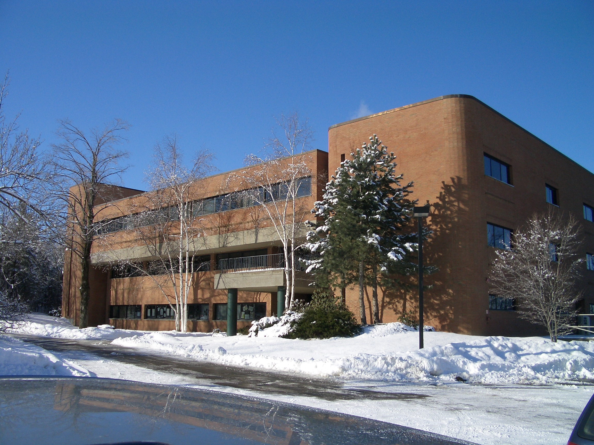 Vermont Information Processing Headquarters